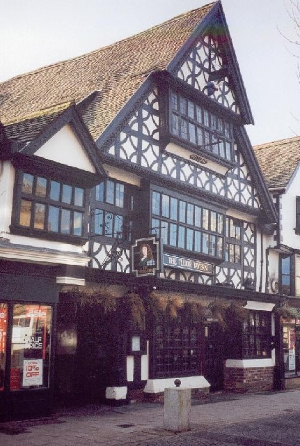 Tudor Inn, Taunton. Dates back to the 1600s when Judge Jeffrys of "Bloody Assize" infamy, was believed to have stayed here.